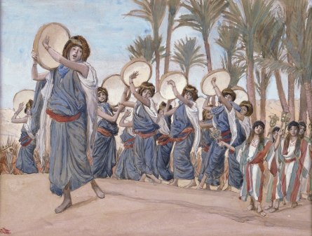 The Songs of Joy, c. 1896-1902, by James Jacques Joseph Tissot (French, 1836-1902), gouache on board, 7 7/8 x 10 1/2 in. (20.1 x 26.7 cm), at the Jewish Museum, New York